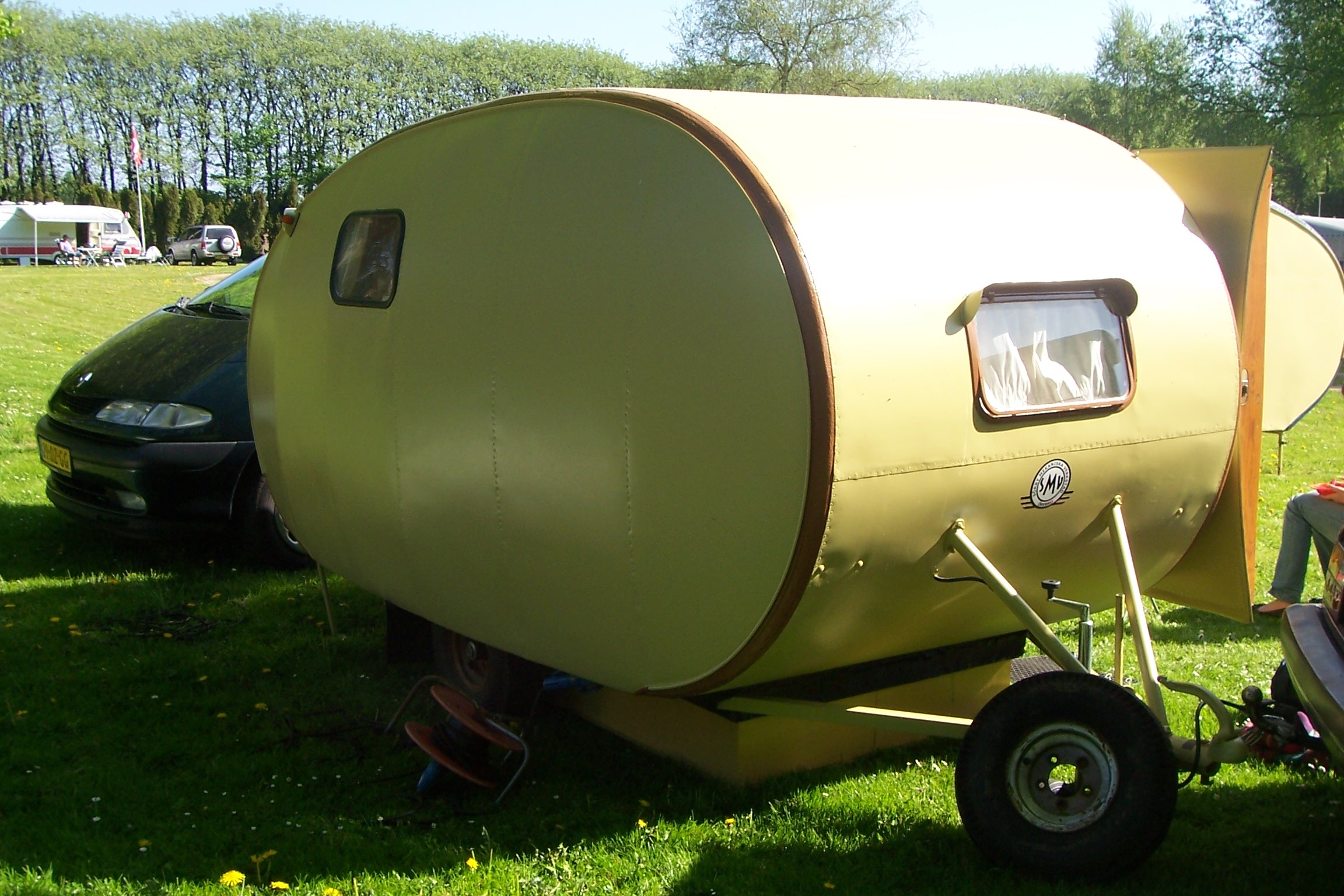 This is an restored SMV prototype